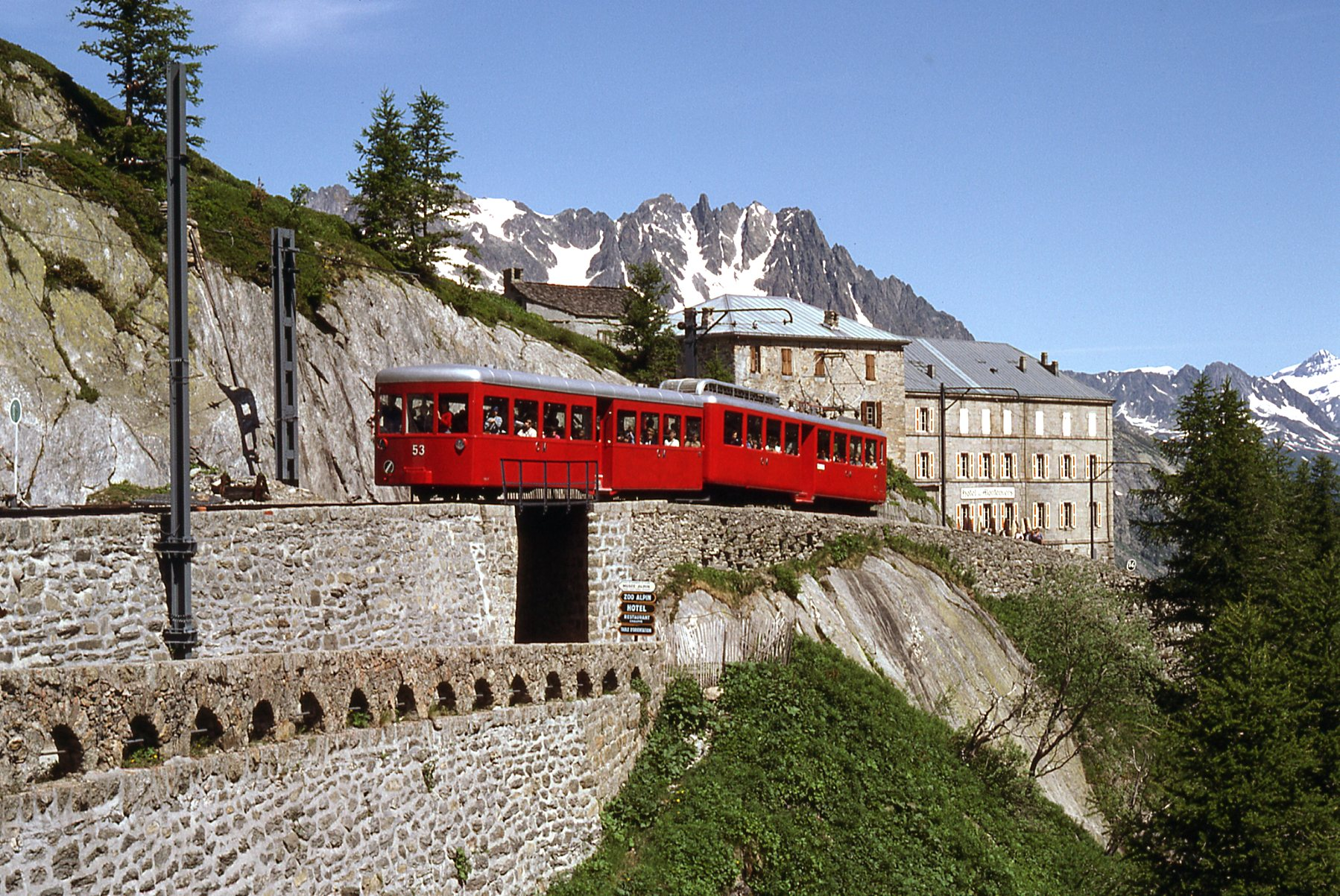 Photo: Trams aux Fils.